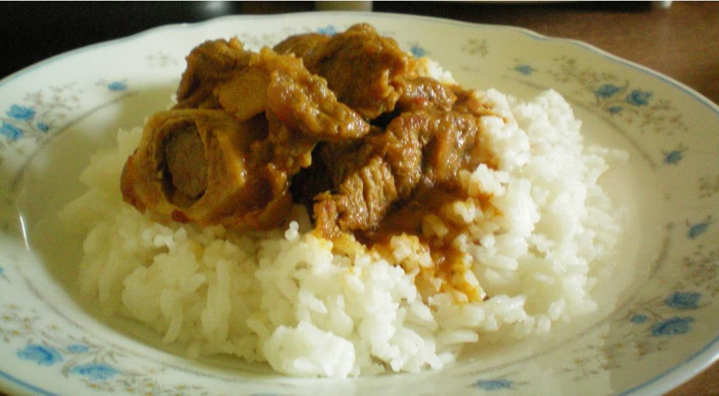 Traditional Bengali food, meat curry (known as tarkhari) served with rice. Available in all Bangladeshi houses.